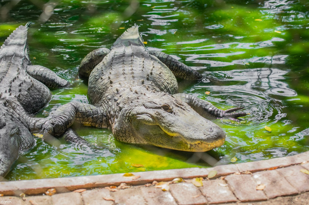 Wildlife and Plants of Israel